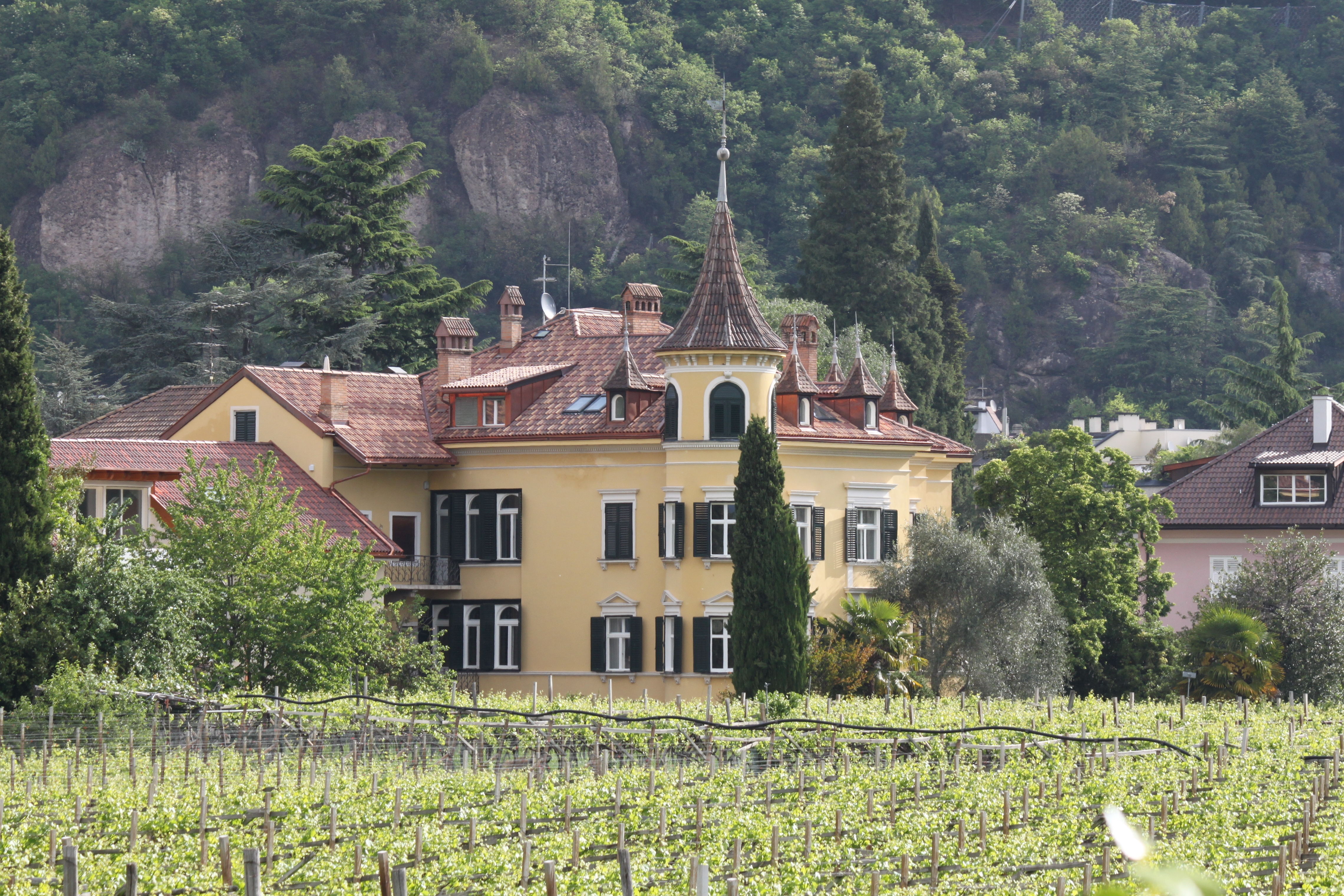 Lindenburg in Bozen Bolzano South Tyrol